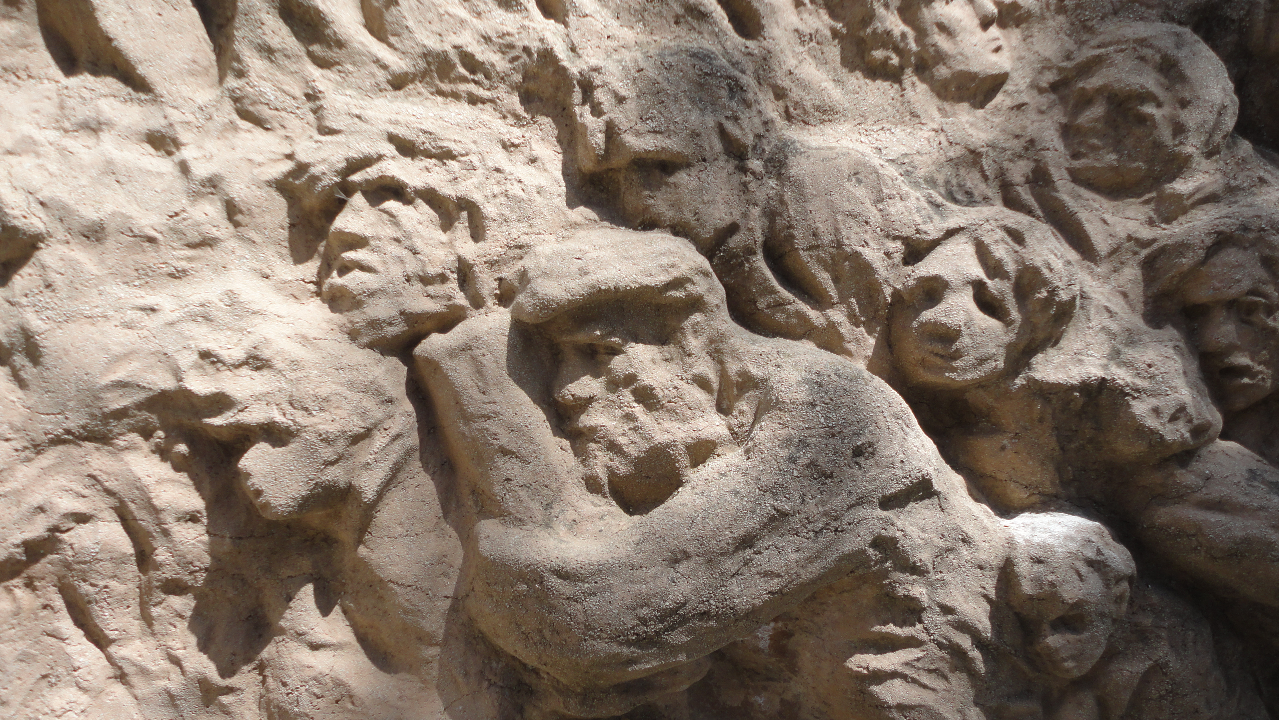 Commemorating the Ukraine Pogroms in the Borochov Quarter (1955) - Batia Lishansky.